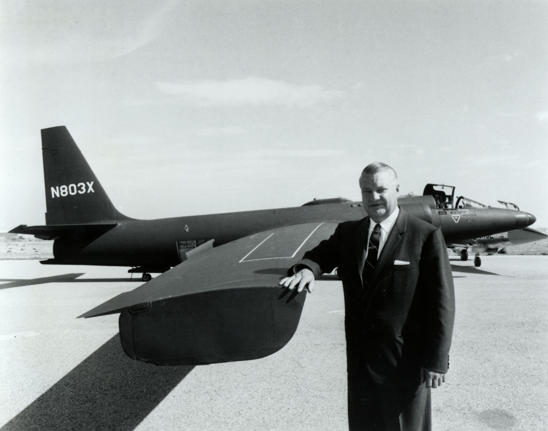 Clarence L. “Kelly” Johnson, chief designer at Lockheed’s secret “Skunk Works” facility, initially designed the U-2 around the F-104 Starfighter fuselage. (U.S. Air Force photo)